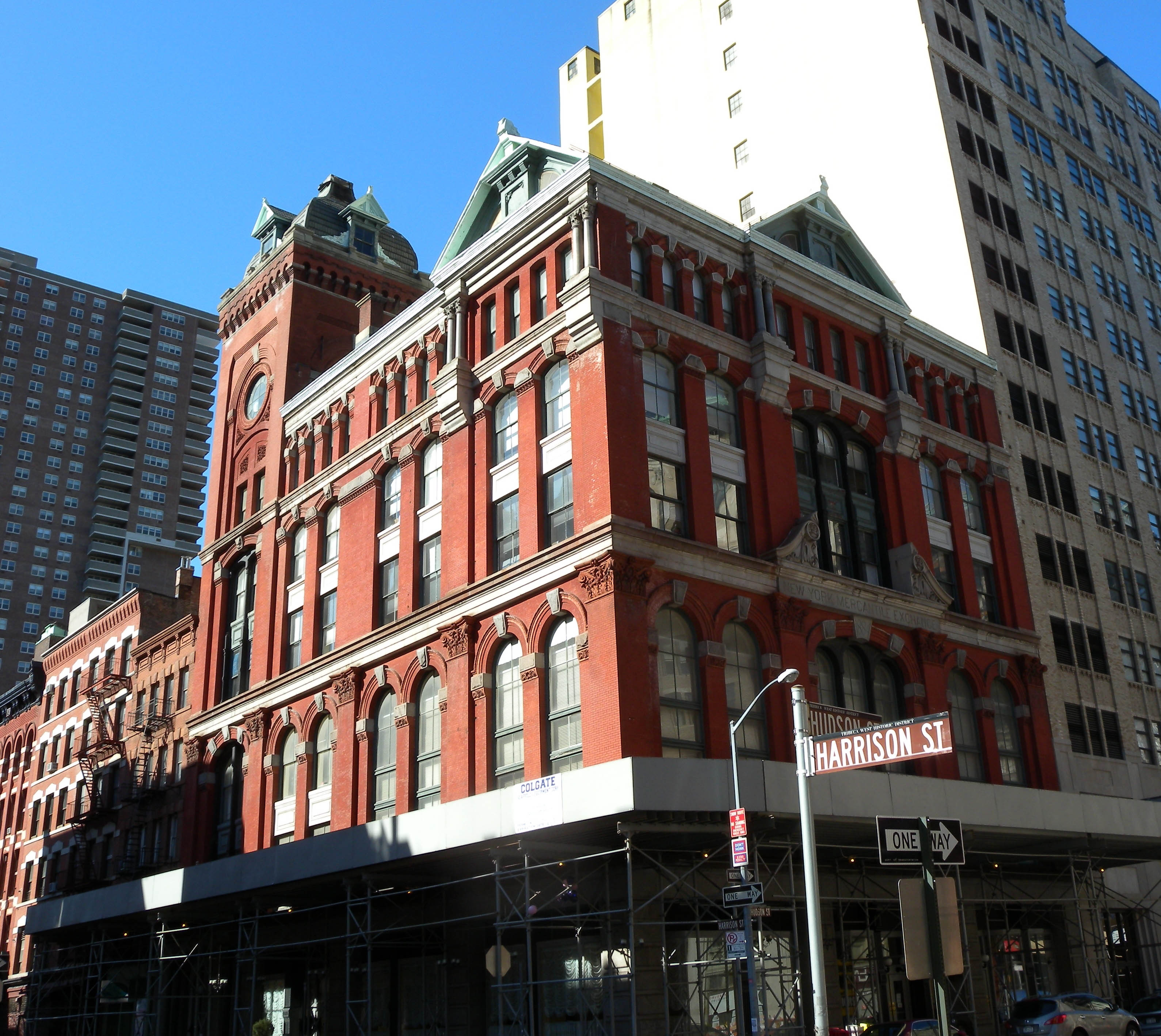 Looking north west across Harrison and Hudson Streets at former New York Mercantile Exchange at 2-6 Hudson Street on a sunny winter early afternoon. Guide to New York City Landmarks map 2; Manhattan Community Board 1.